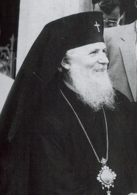 Metropolitan Pancratius of Stara Zagora meet with Moshood Abiola